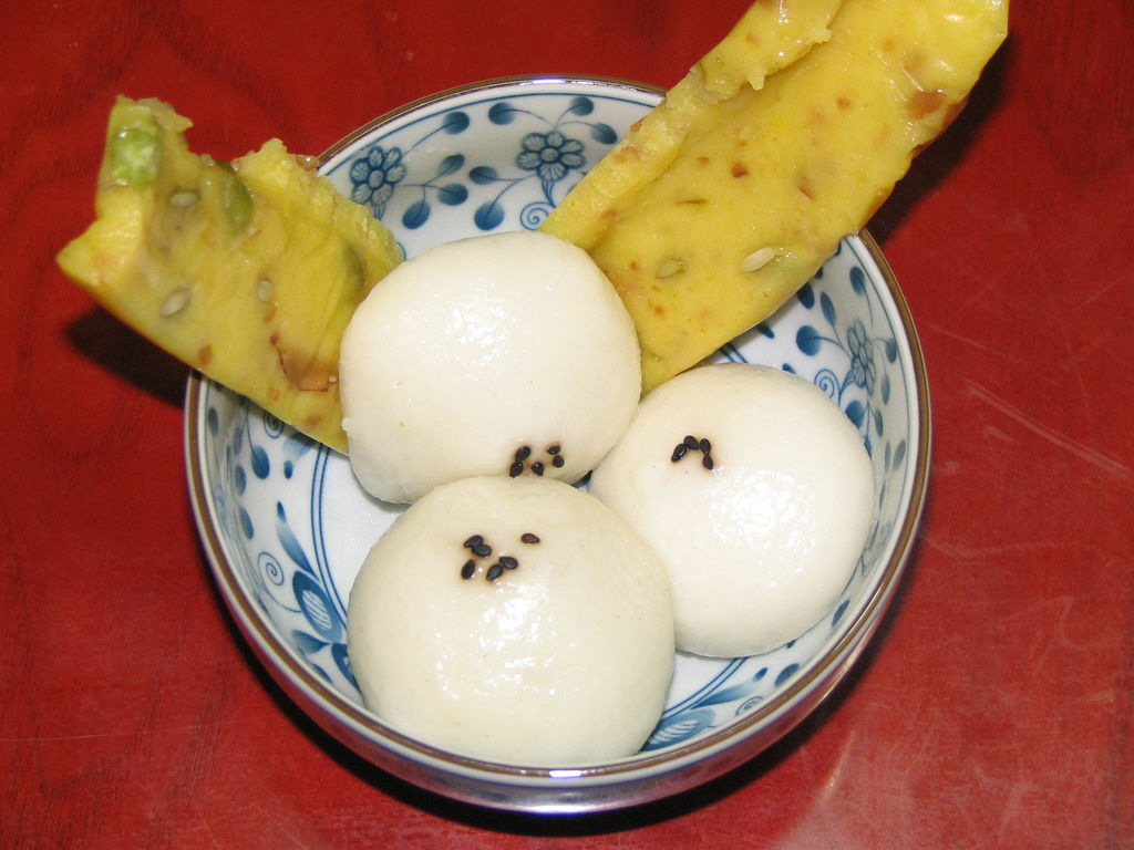 Jeungpyeon is a variety of tteok, Korean rice cake, made by steaming a mixure of rice flour and rice wine